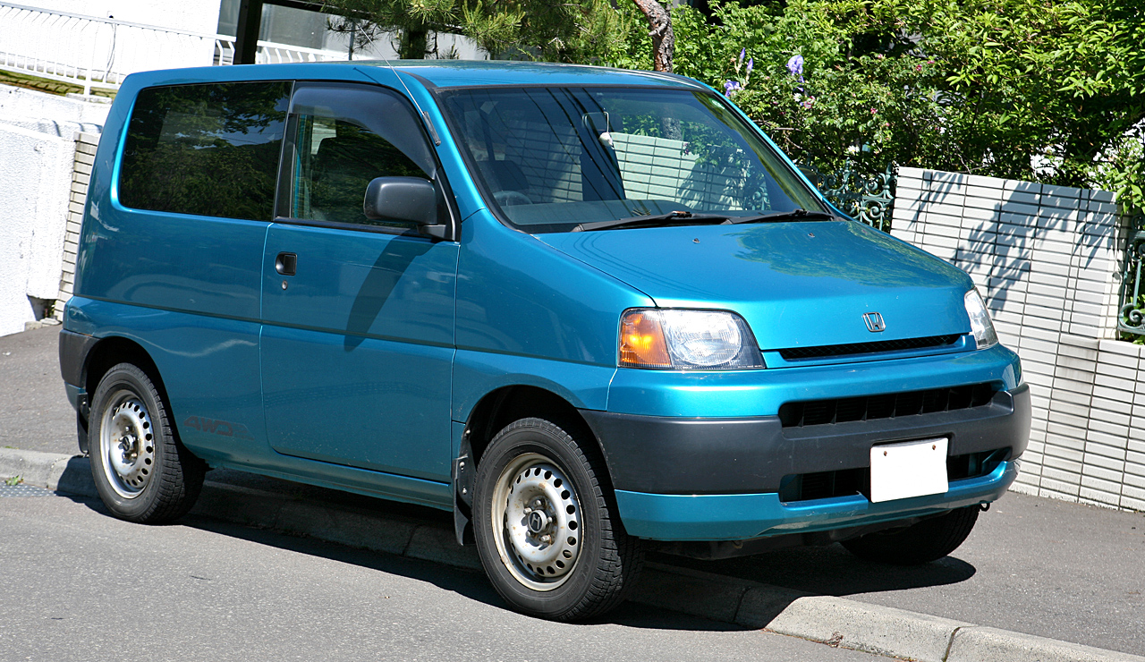 Honda S-MX 4WD